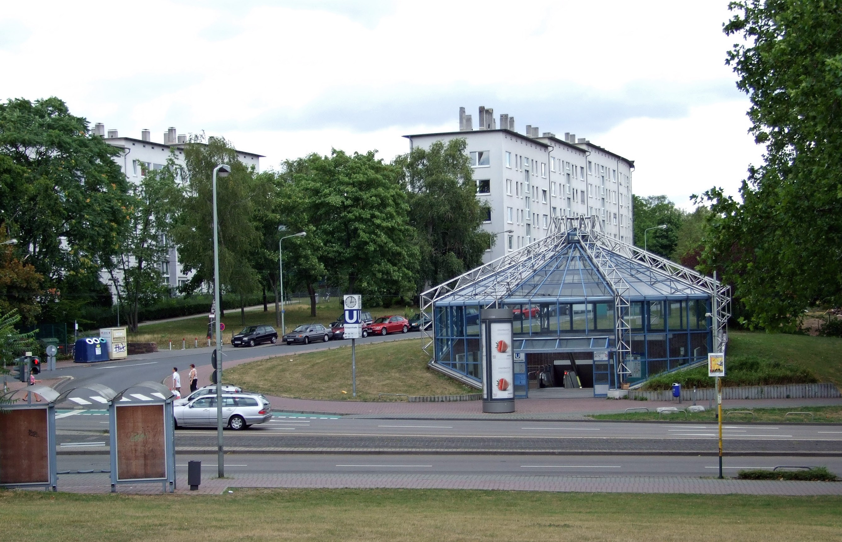 underground station access Eissporthalle at Saalburgallee in Frankfurt am Main (Bornheim)